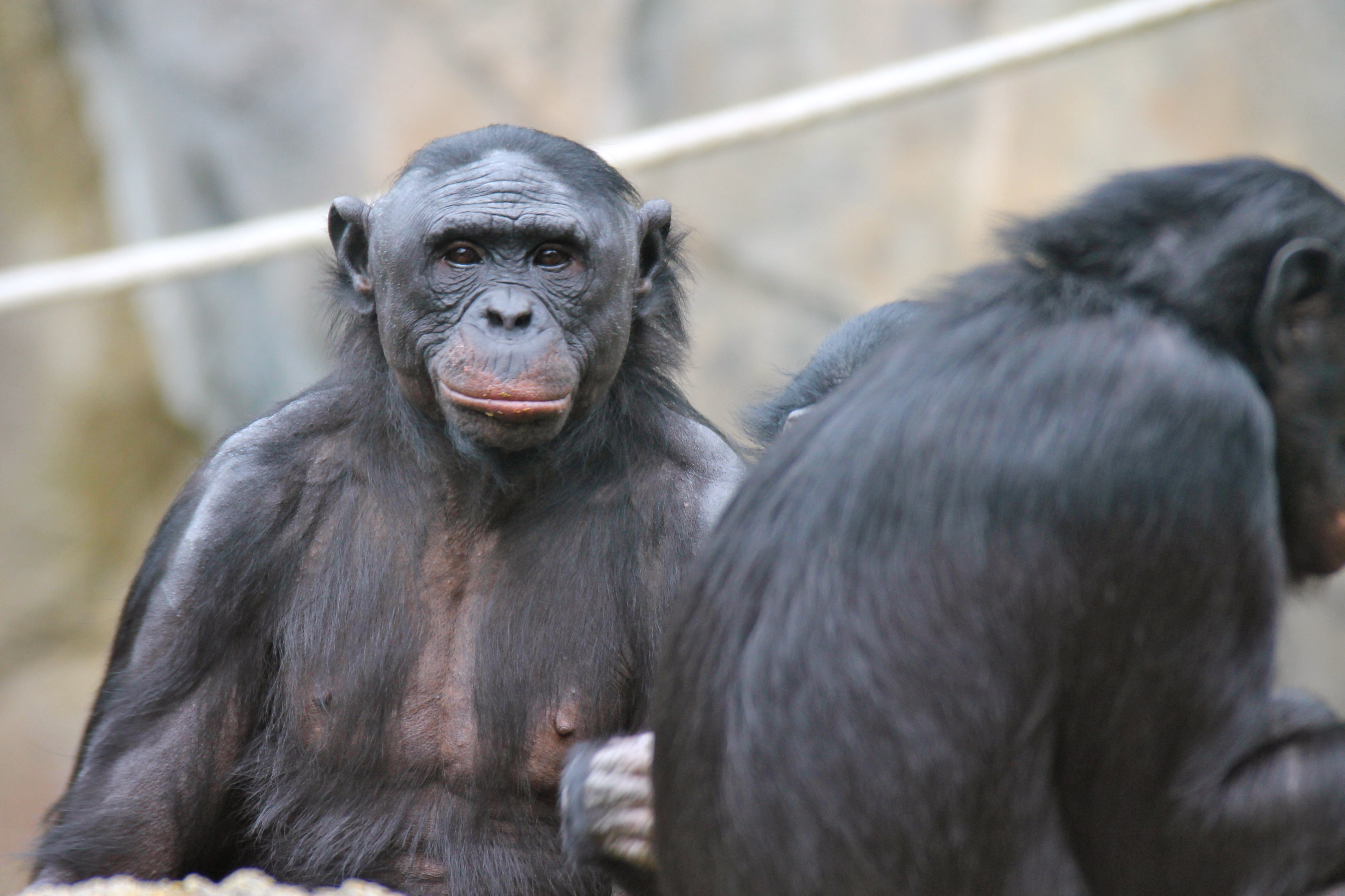 Bonobos